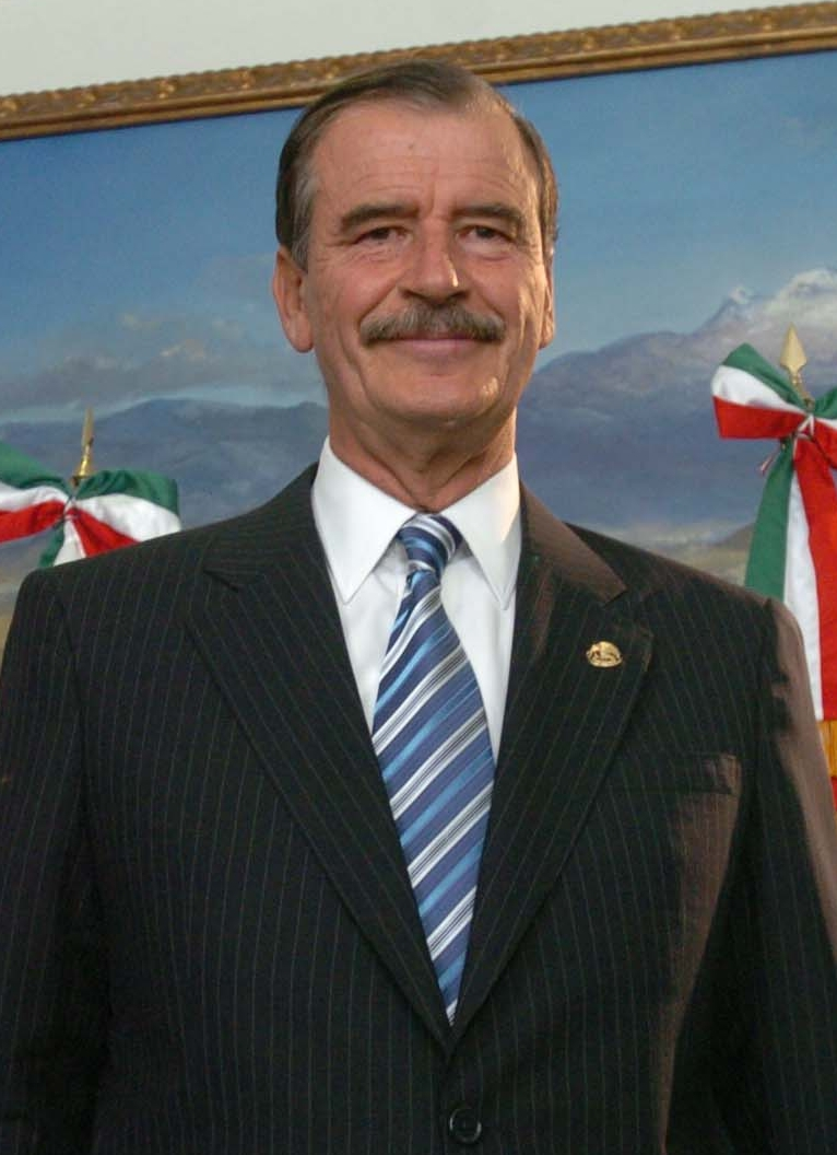 Cropped picture of Vicente Fox, president of Mexico.